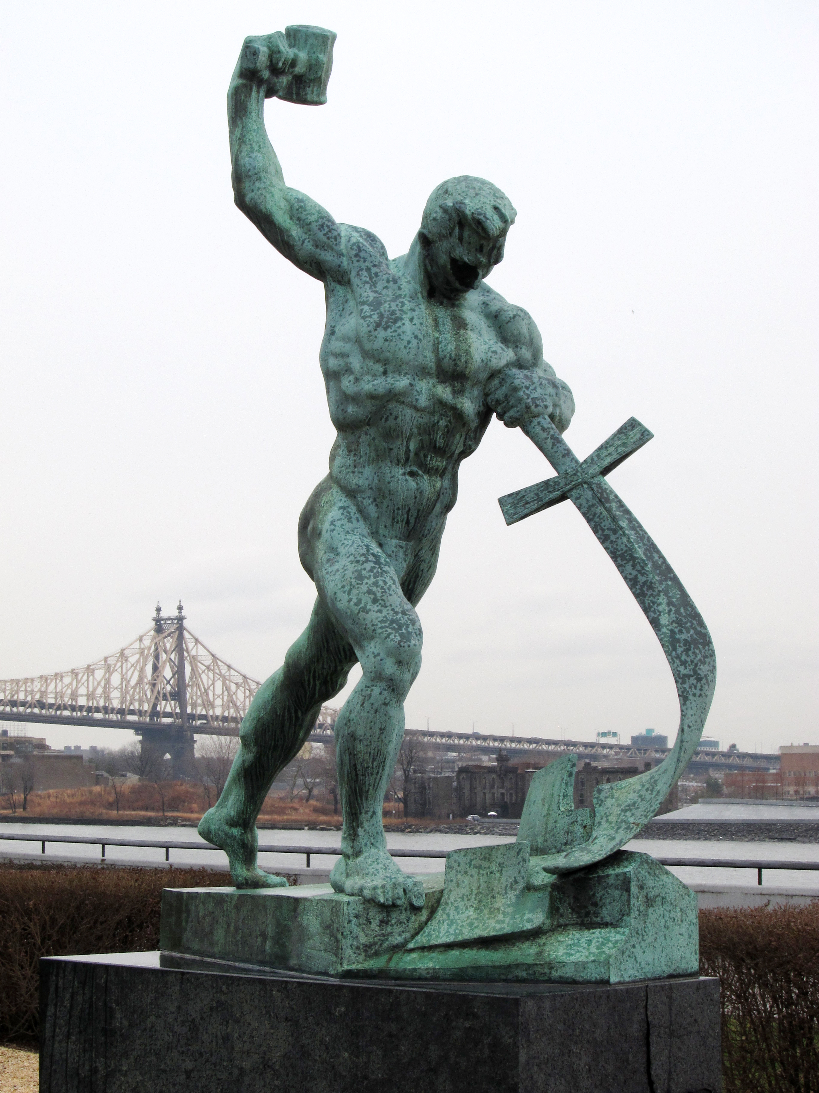 Let Us Beat Swords into Plowshares, sculpture by Yevgeny Vuchetich - 1959 gift of the Soviet Union to the United Nations - garden of the United Nations Headquarters in New York City